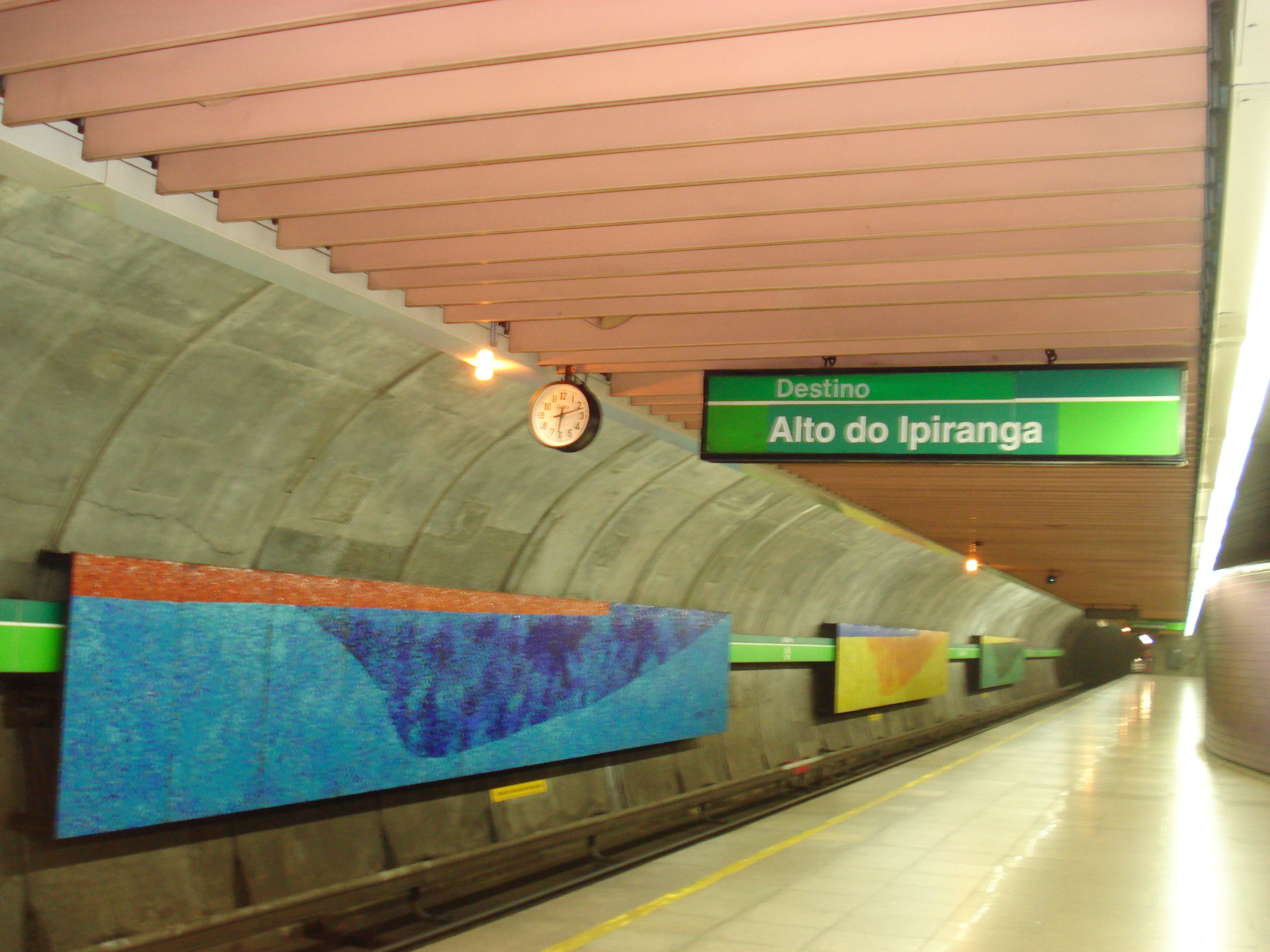 Consolação station of São Paulo Metro